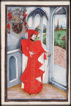 Statuts, Ordonnances et Armorial de l'Ordre de la Toison d'Or (Statutes, Ordonnances and armorial of the Order of the Golden Fleece) Place of origin, date: Southern Netherlands; 1473. Added sections: Southern Netherlands; 1478 or shortly after and 1491 or shortly after Material: Vellum, ff. 86, 249x187 (167x106) mm, 23 lines, littera cursiva (lettre bourguignonne). French. Binding: 18th-century brown leather Decoration: 1 full-page miniature (170x115 mm) with border decoration; 92 miniatures (185/155x120/100 mm); 1 historiated initial (80x90 mm) with border decoration; decorated initials with border decoration (ff., Added section: miniatures ; 4 drawings for miniatures (not finished) Provenance: Presented in 1473 by Gilles Gobet, King of Arms of the Order of the Golden Fleece, to Charles the Bold, Duke of Burgundy and the other Knights during the Chapter of the Order held at Valenciennes; Treasure of the Golden Fleece, Brussls; taken away by the Treasurer C.-F. Humyn (d. 1735) or his daughter C.Ch. de Corte; by legacy to her daughter M.-L. de Corte, wife of Ph.-E. de Poederlé; purchased in 1781 at the Poederlé sale by G.-J- Gérard of Brussels; acquired in 1832 as part of the Gérard collection (no. A 27)